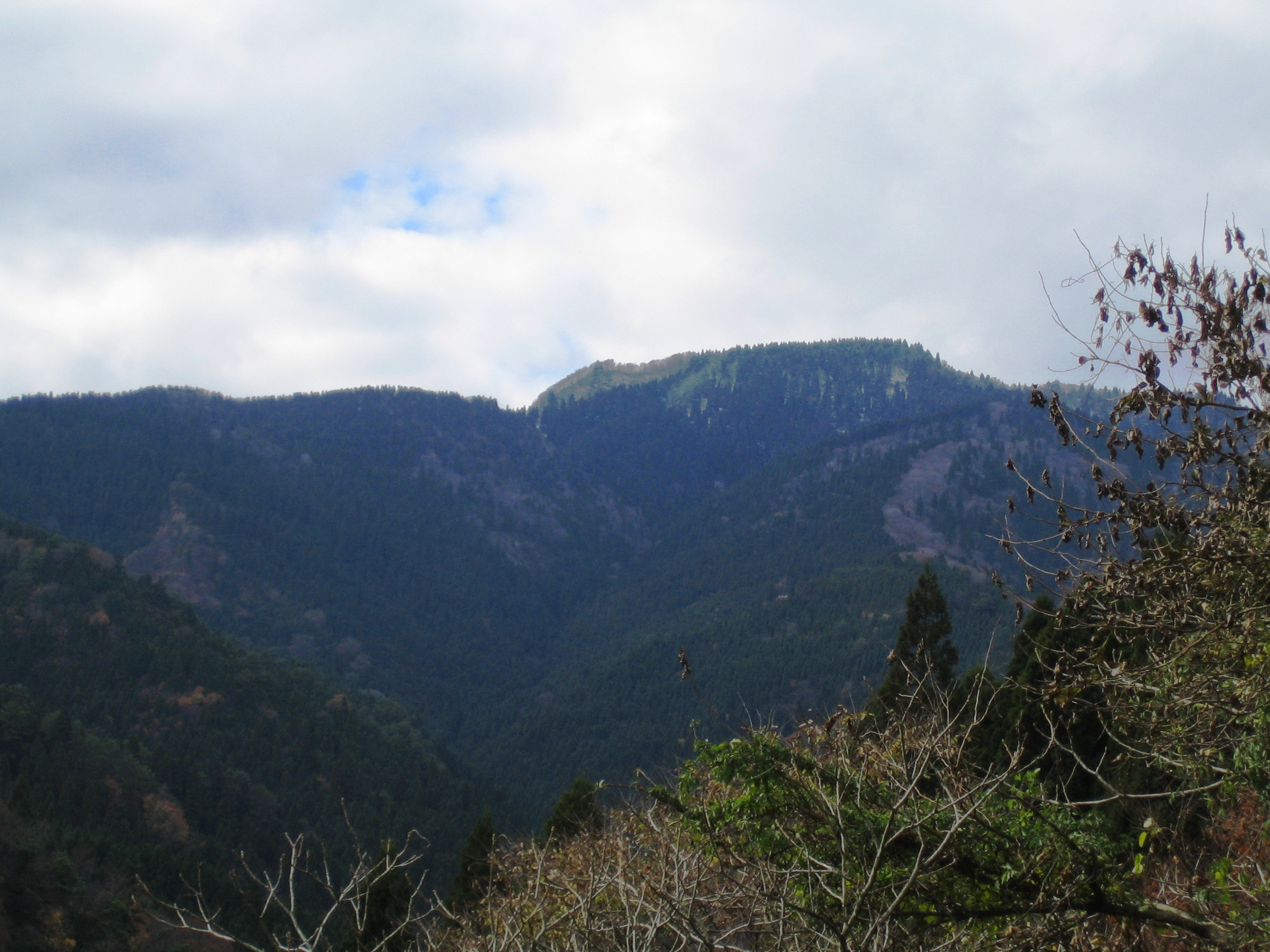 Mount Myoken seen from the east, on the border of Yabu and Kami, Hyogo, Japan. Also known as Mount Tajima-Myoken.